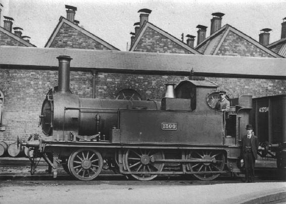 Great Western Railway 2-4-0T 1300 at Exeter. This is one of three 2-4-0STs under construction by the South Devon Railway in 1876 that was completed in the pictured form by the GWR. It was based at Exeter to work on the Culm Valley Light Railway.